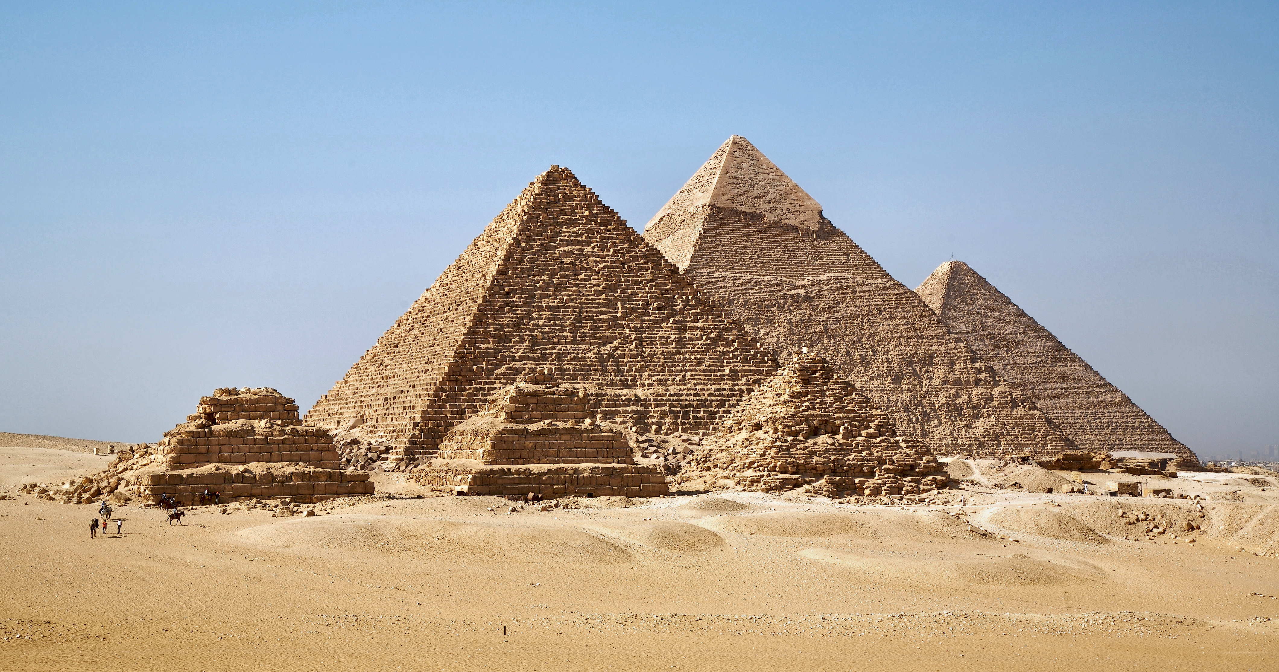 All Gizah Pyramids in one shot.